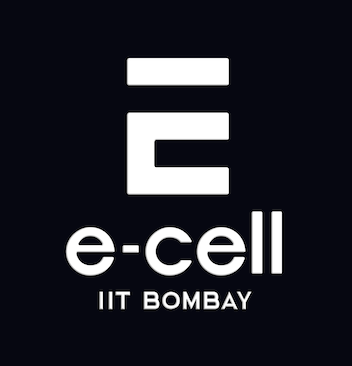 The logo of E-Cell IIT Bombay from 2018 onwards.